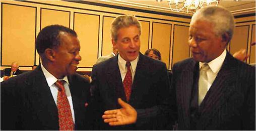 Sir Kentumile Masire, former President of Botswana, at the Free Market Foundation ceremony where he received the "Free Market Award" in 2000. Depicted from left to right: Masire, Leon Louw (FMF executive director), and Nelson Mandela (former President of South Africa).